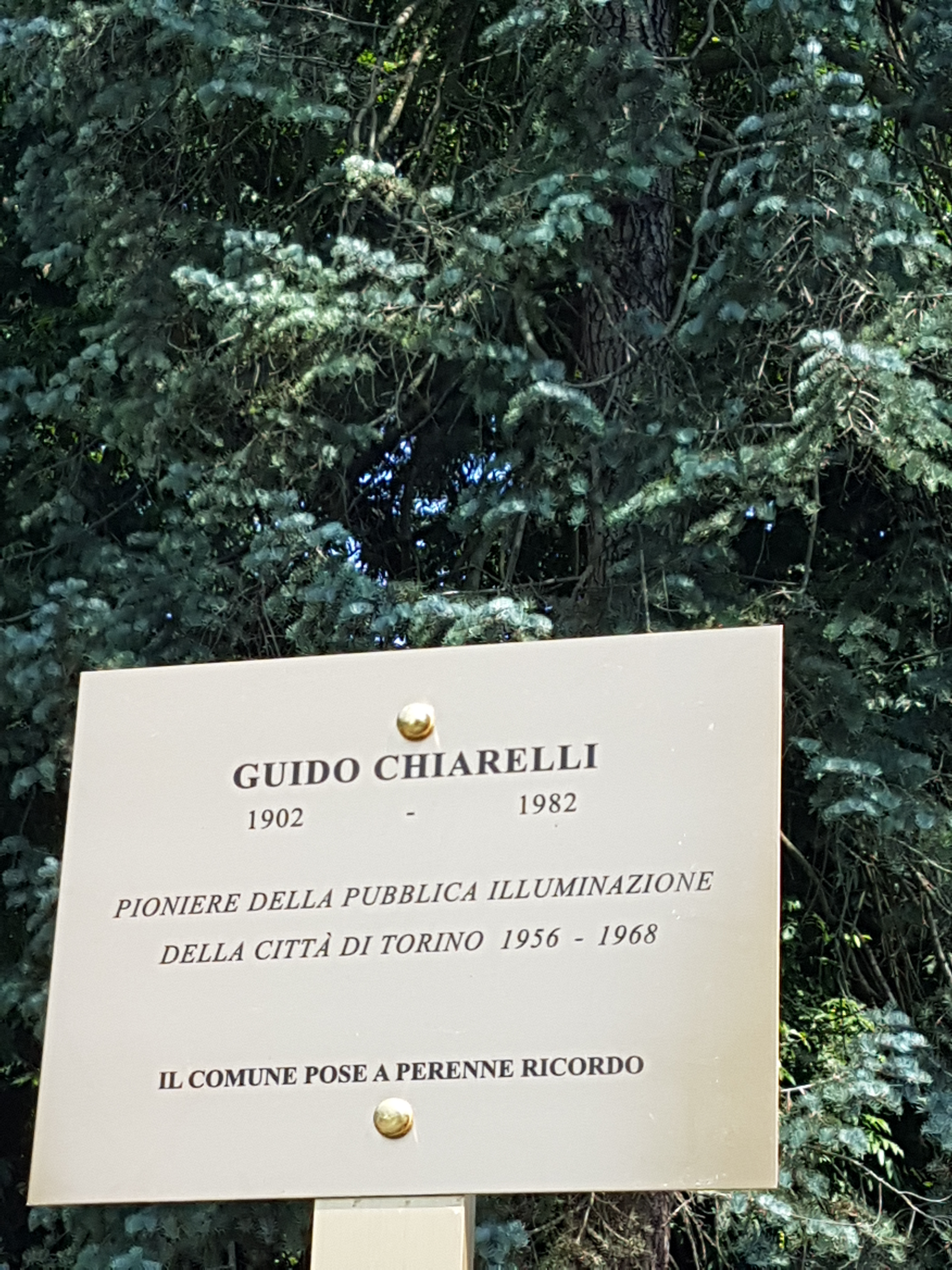 Commemorative plaque for Guido Chiarelli placed in Valentino Park in Turin, 3 July Targa Commemorativa per Guido Chiarelli